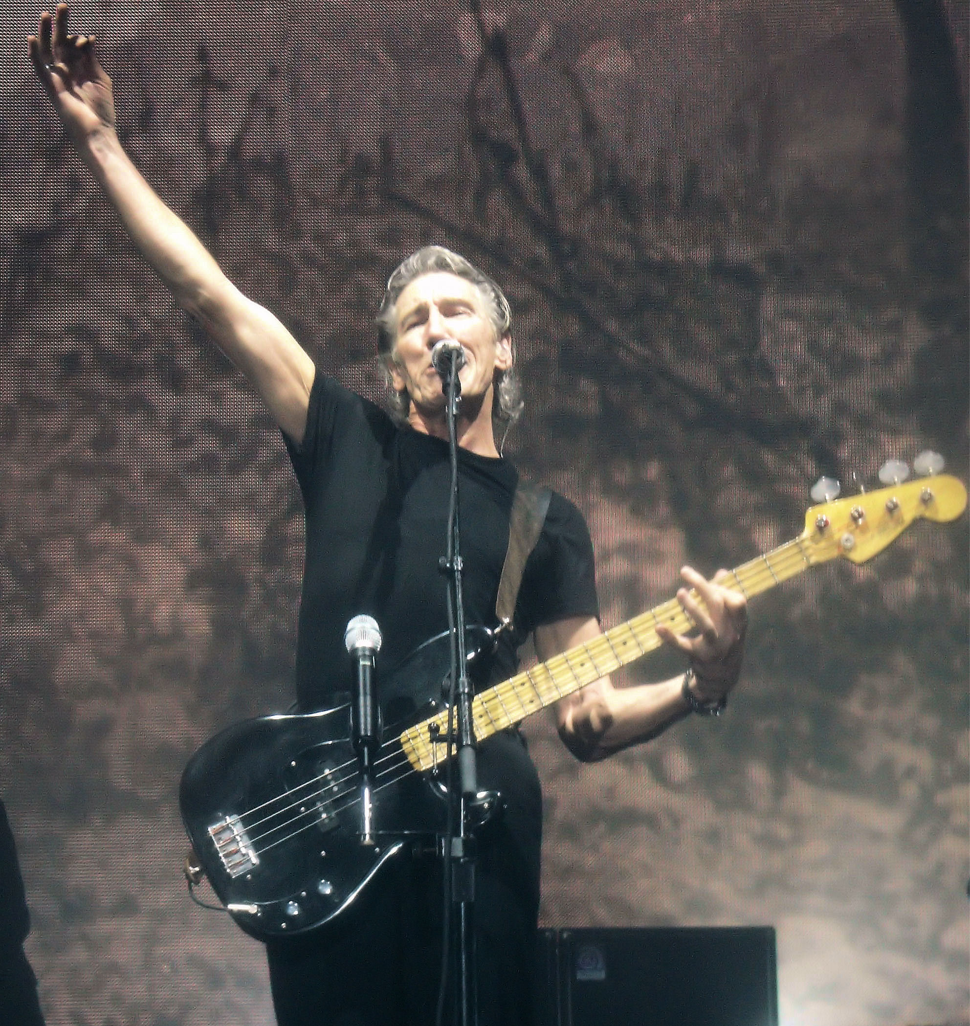 Photo by James Collins, 8 May 2007